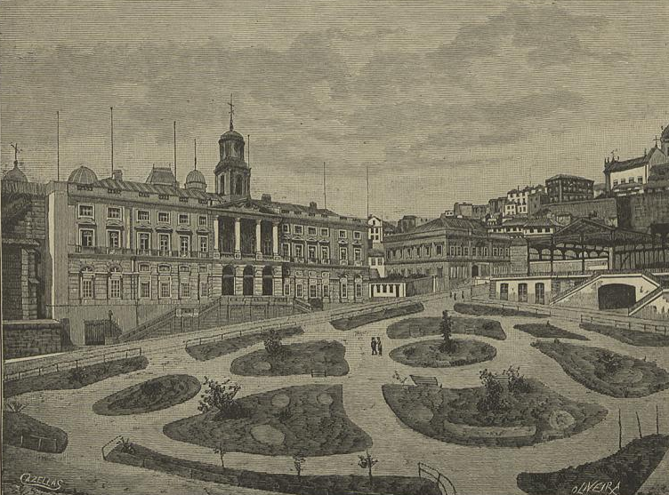 Praça do Infante D. Henrique (Henry the Navigator Square) in Oporto, as it looked like in the 19th century.